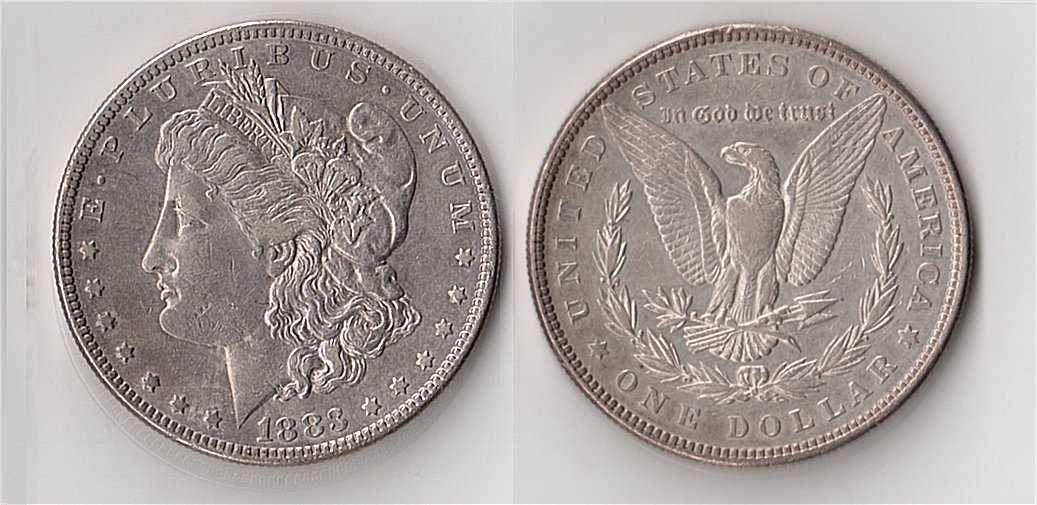 1883 Morgan Silver Dollar